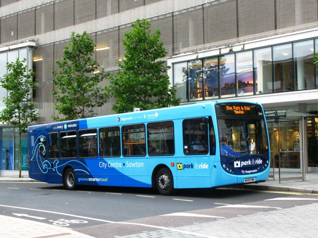 A Park and Ride bus in Paris Street, Exeter, Devon, operated by Stagecoach South West. Each route is colour coded; the blue route serves a facility at Sowton to the south west of the city. The bus is 24141, an Enviro 200 with MAN 18.240 chassis (registration number WA59FWW).